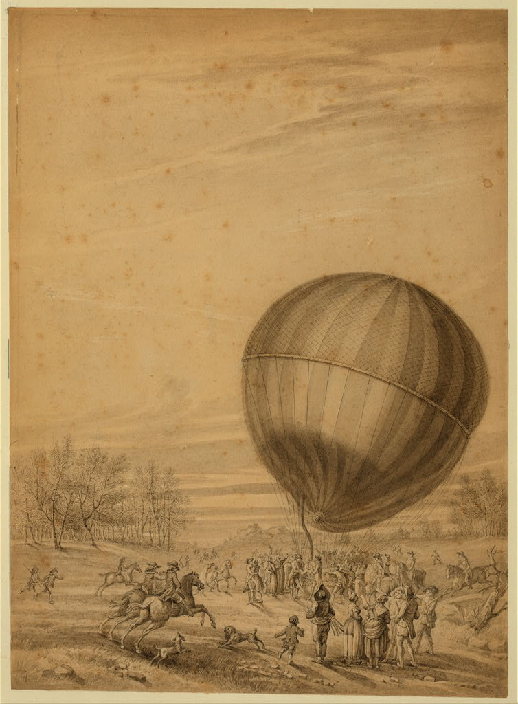 Title: The 'Aerostatic globe' balloon, belonging to Jacques Charles and Marie-Noel Robert, descending on the plain of Nesle, near Beaumont, FranceFile:The 'Aerostatic globe' balloon, belonging to Jacques Charles and Marie-Noel Robert, descending on the plain of Nesle, near Beaumont, France LCCN2002735670.tif. - Description: Drawing shows descent of the first manned hydrogen gas balloon flight, which departed from Paris, France on Dec. 1, 1783. Among the Spectators in left foreground are the Duke de Chartres and the Duke de Fitz-James.